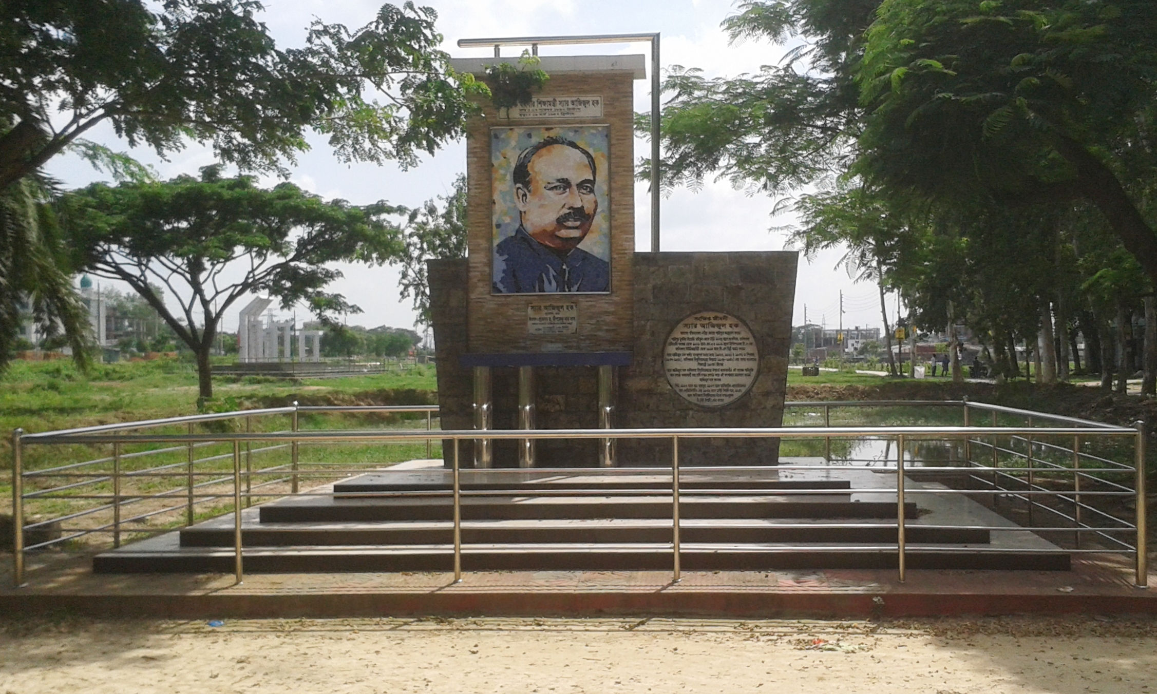 Sir Azizul Haque Sculpture, Govt A H College, Bogra